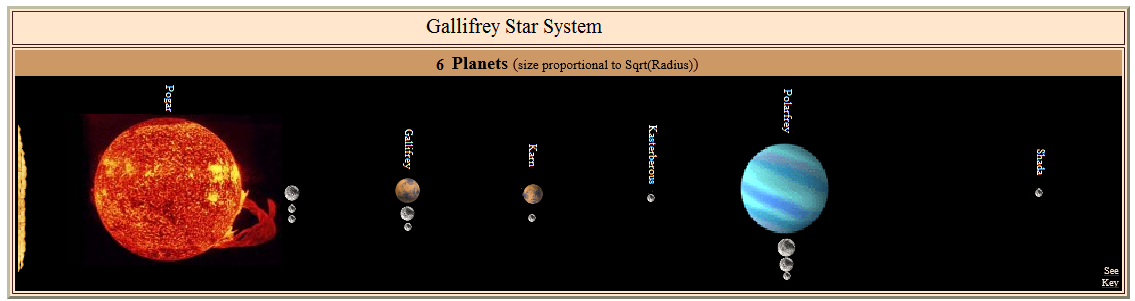 Diagram of the (Fictional) Gallifrey Star System, including Gallifrey, Karn and Shada.